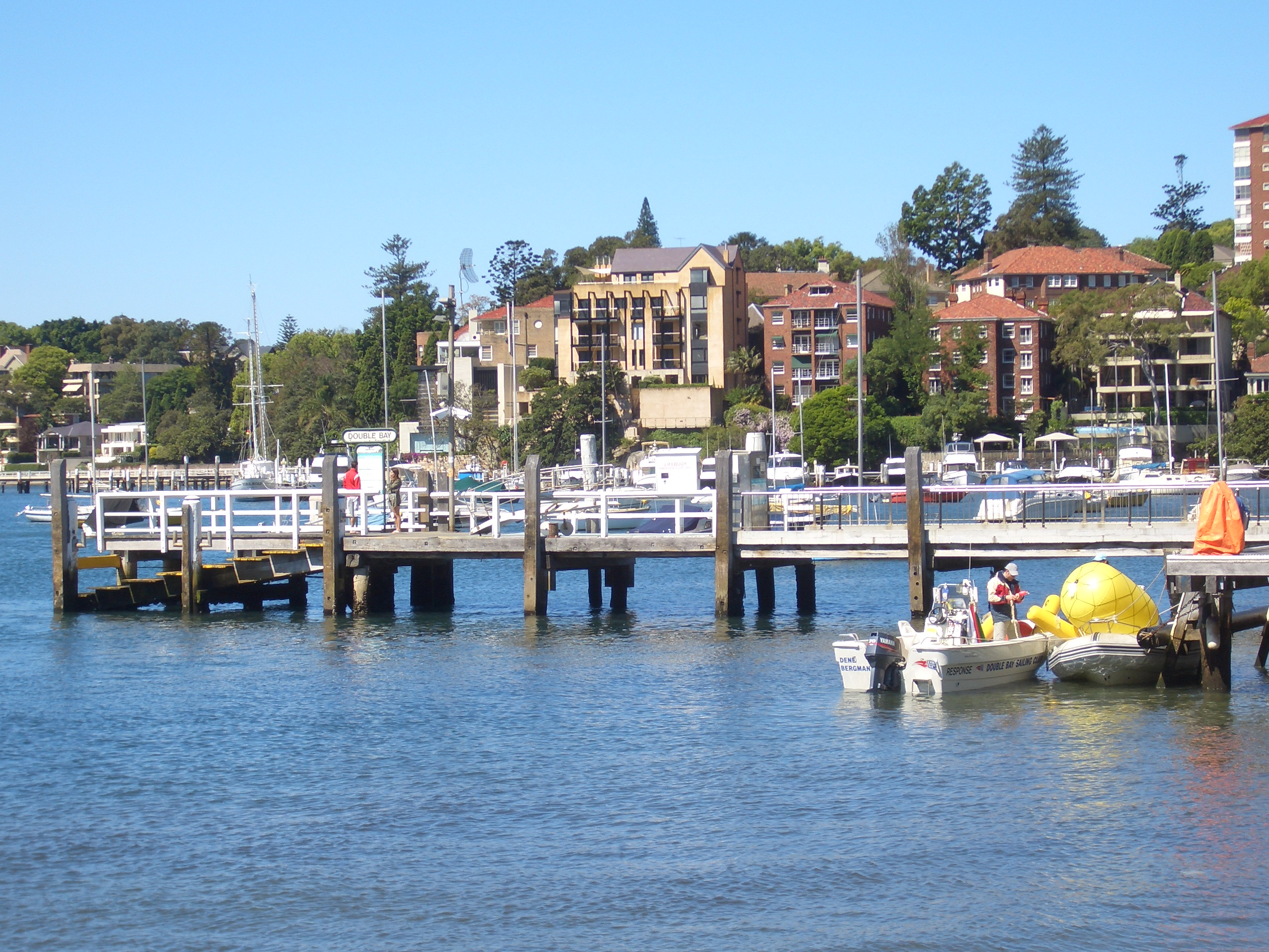 Double Bay ferry wharf